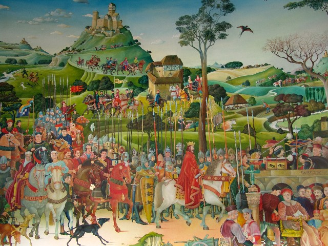 In the background the castle Hohenstaufen, built around 1080, destroyed in the Bauernkrieg. Front left on horseback Agnes of Waiblingen, daughter of the Salier Emperor Henry IV, wife of Duke Friedrich of Swabia. In the middle of the duke on horseback with red cloak.